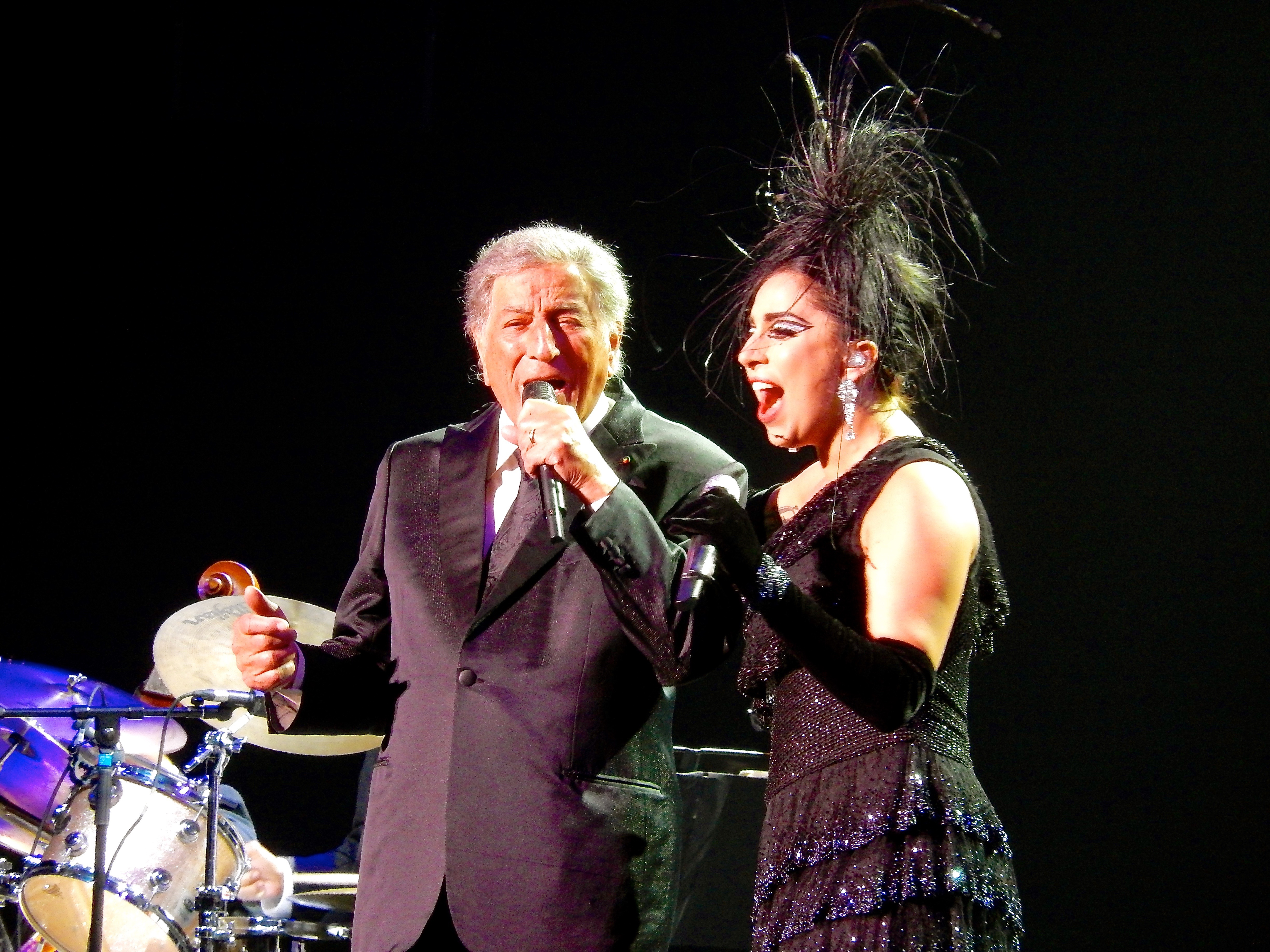 Cheek to Cheek Concert. The Axis. Planet Hollywood. Las Vegas. April 2015. Gaga and Bennett performing at Los Angeles for the Cheek to Cheek Tour